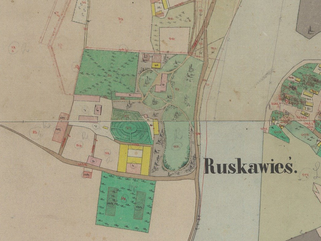 Manor house in Ruska Wieś (Wybrzeże) near Dubiecko on a map from 1851